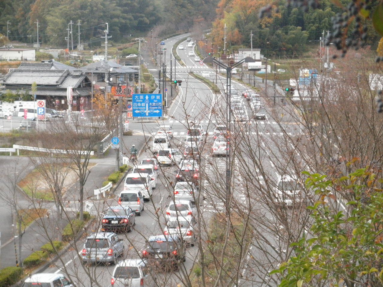 Sakuragaoka4 Seikatown Kyotopref Naraprefectural and Kyotoprefectural road 52 Nara seika Line